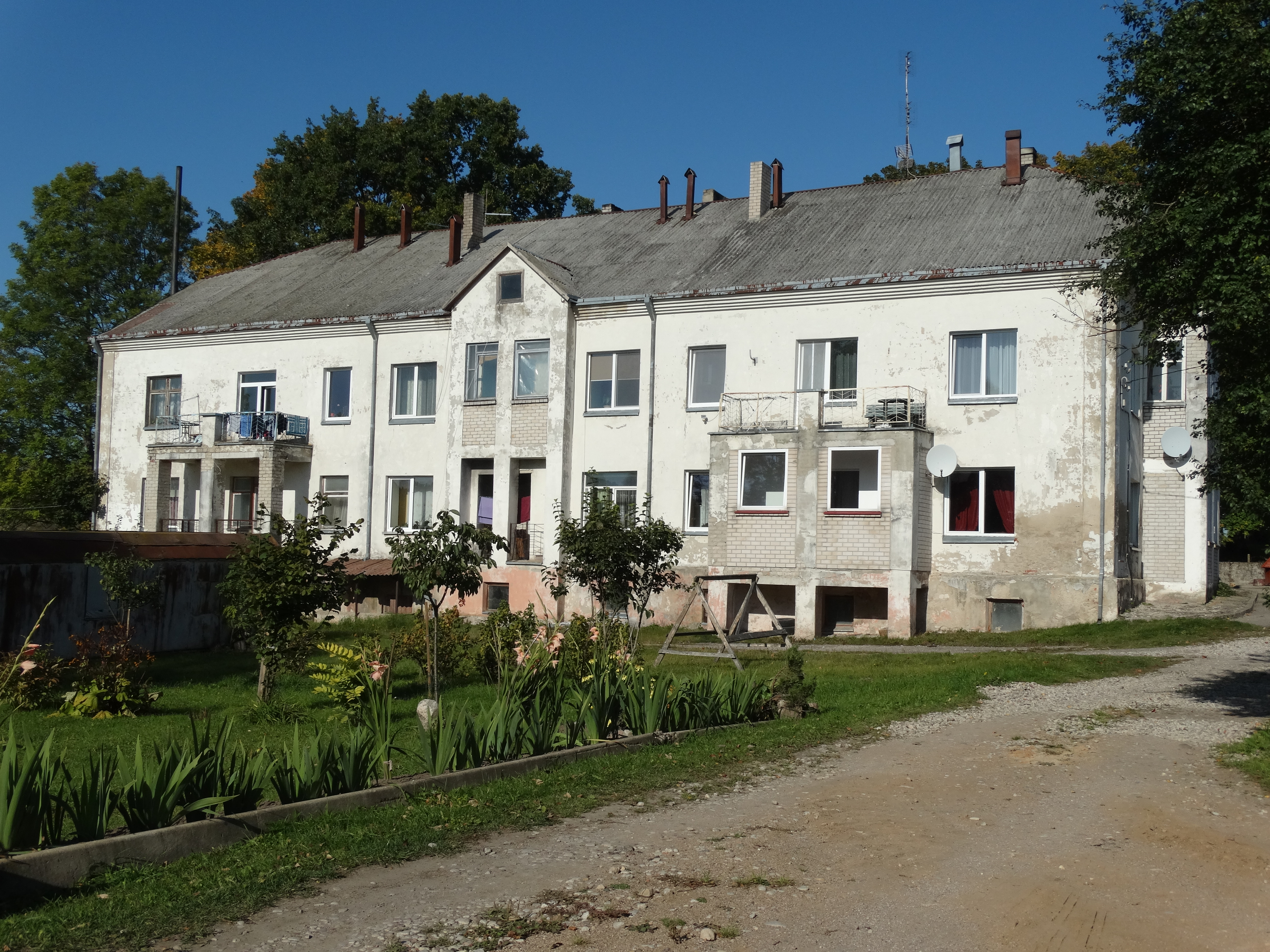 Blinstrubiškiai, former manor, Raseiniai District, Lithuania